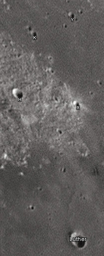 Luther lunar crater as seen from Earth with satellite craters labeled